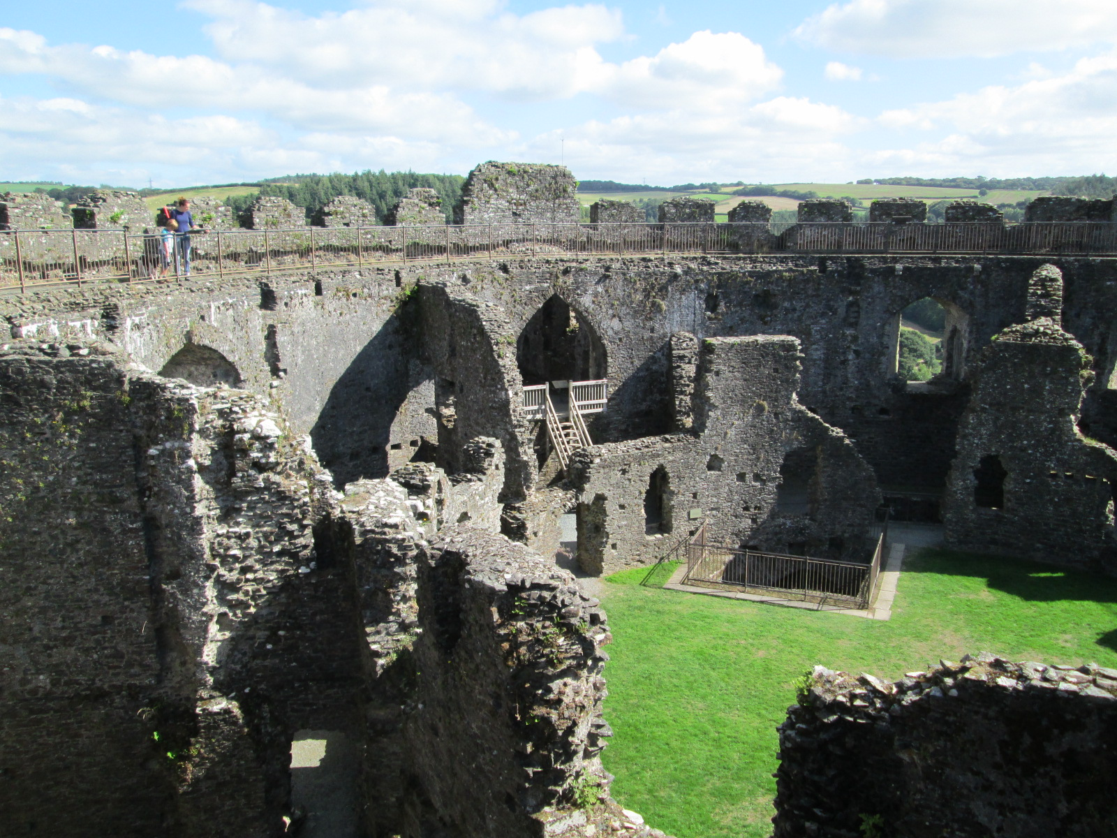 Looking across the courtyard of Restormel Castle, from the wall-walk. Opposite, in the courtyard, is the well (with modern railings round it). To its left, up a modern timber staircase, is the chapel.